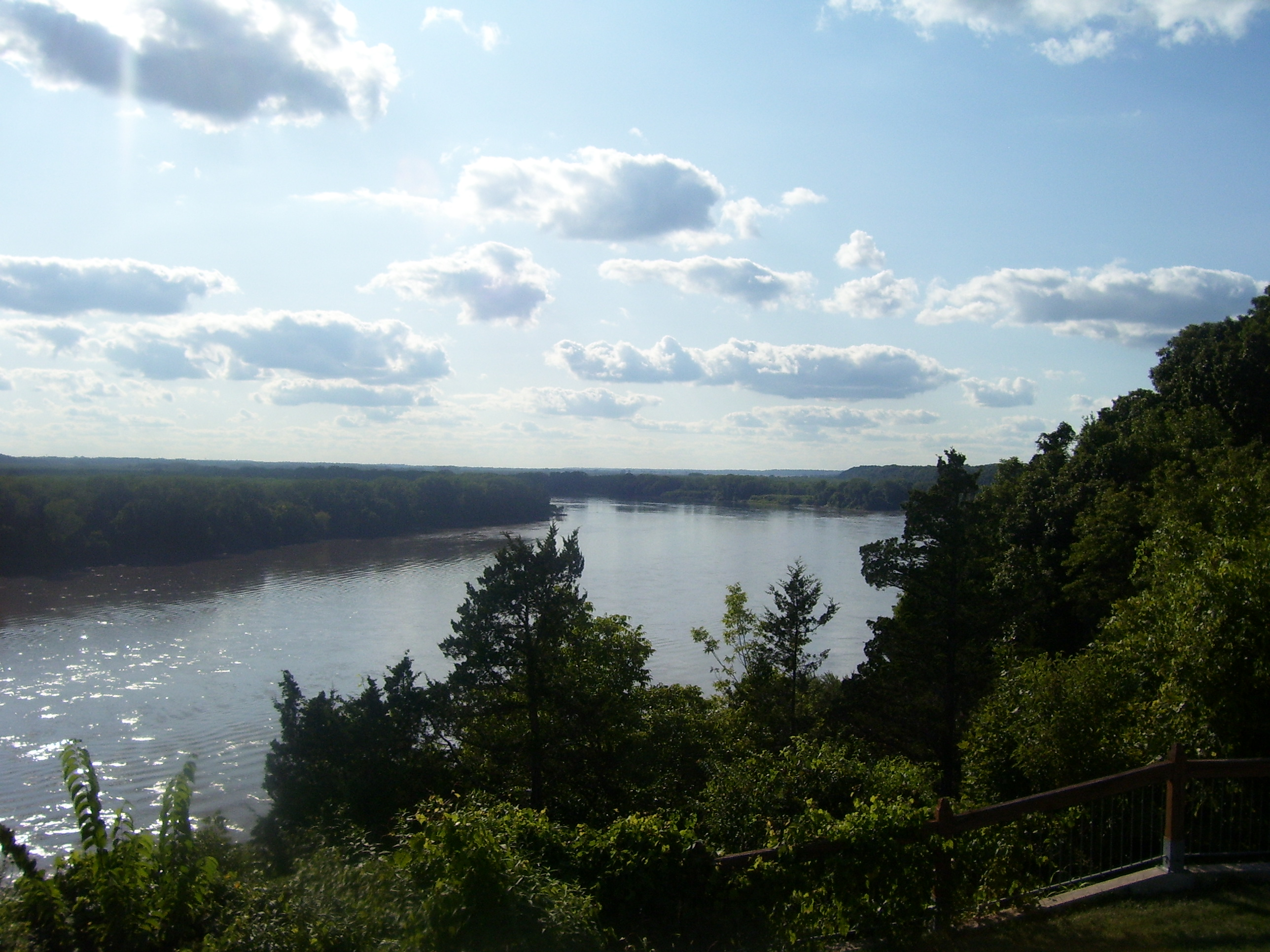 A stretch of the Missouri River between Rocheport, MO and Boonville, MO